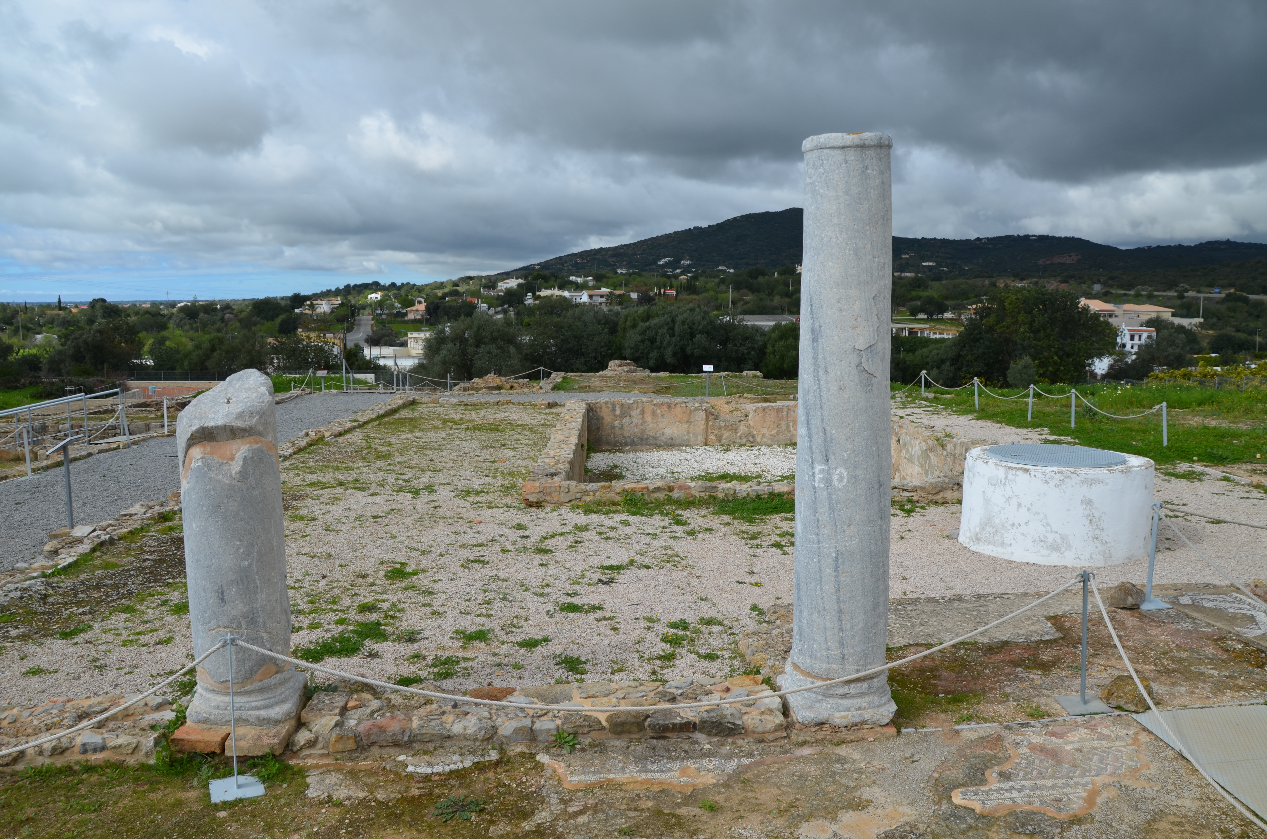 Atrium at the Roman Ruins of Milreu, in Algarve, Portugal.